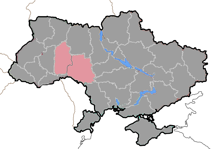 Map of roman-catholic dioceses in Ukraine location of Diocese of Kamyanets-Podilskyi